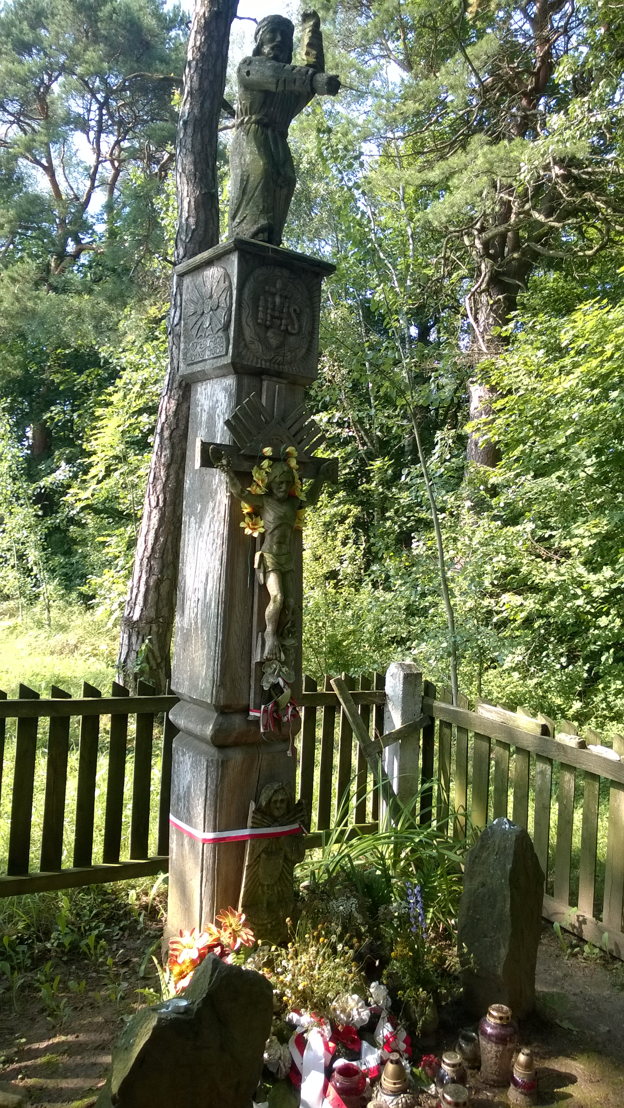 Masty District, Belarus